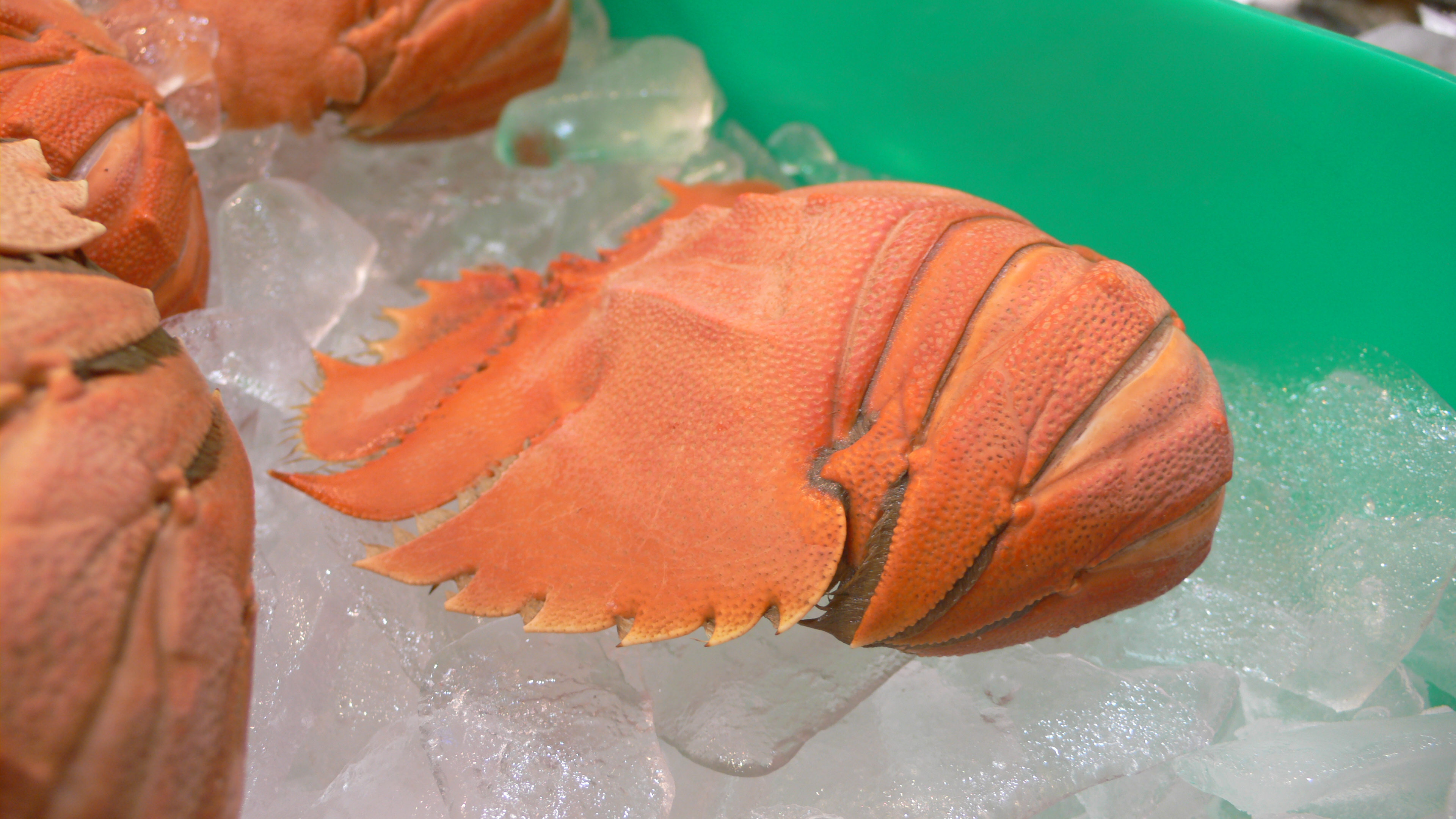 Ibacus peronii, flat, rock lobster-like creatures that they call "bugs". They were labeled "Cooked Balmain Bugs". Scary alien bugs.